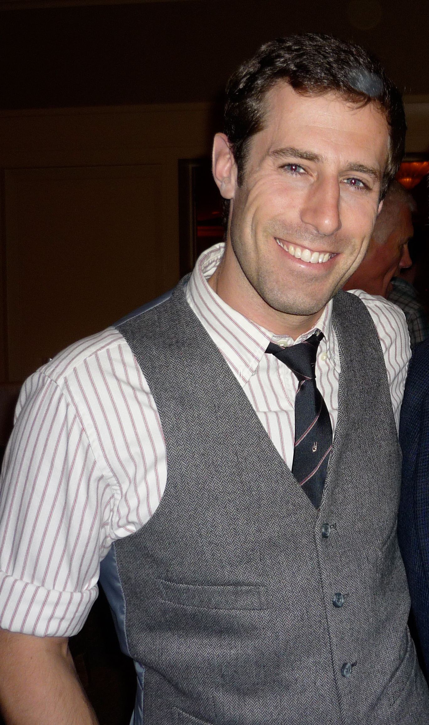 Josh Cooke at TCA 2010